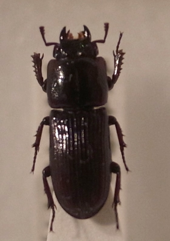 Cropped picture. Domain: Eukaryota • Regnum: Animalia • Phylum: Arthropoda • Subphylum: Hexapoda • Classis: Insecta • Ordo: Coleoptera • Familia: Lucanidae • Genus: Figulus Wikispecies has an entry on: Figulus daitoensis. Species Figulus daitoensis (Fujita et Ichikawa,1986) 動物界 節足動物門 昆虫綱 コウチュウ目(鞘翅目) クワガタムシ科 チビクワガタ属 Location: Himeji City Science Museum, Japan Other photos: Encyclopedia of Life: Figulus daitoensis uBio: Figulus daitoensis Copyright: User:OpenCage